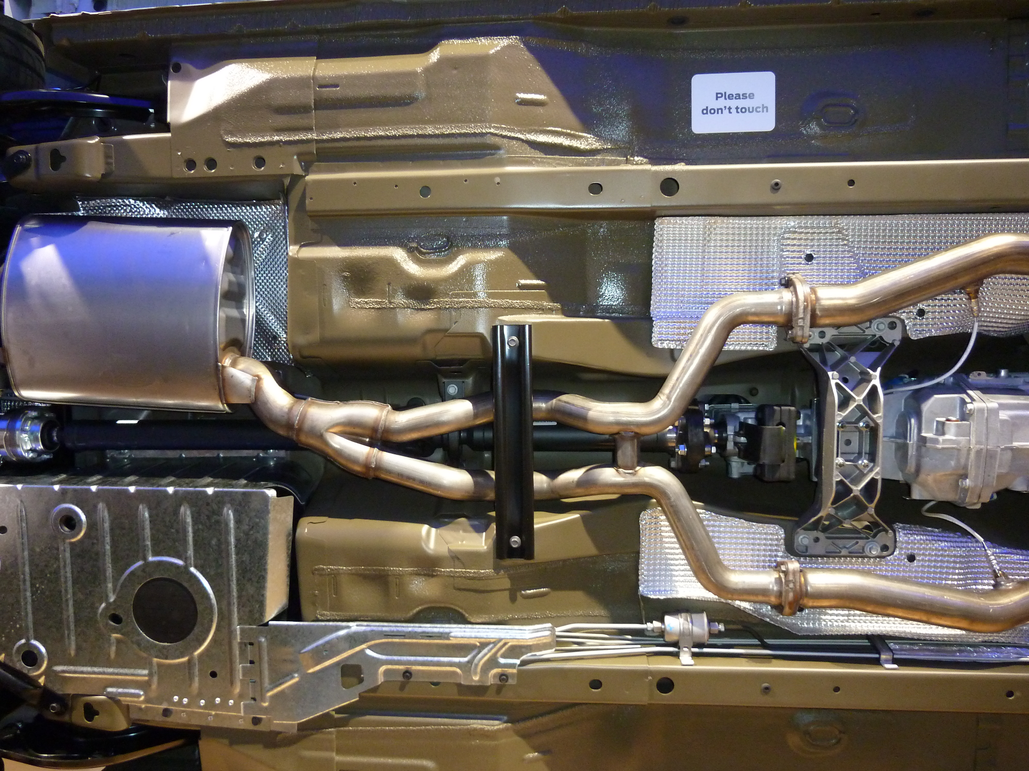 Underbody (showing the exhaust system and drive shaft) of a 2010 FPV GT (FG) Boss 335 sedan. Photographed at the 2010 Australian International Motor Show, Sydney, New South Wales, Australia.